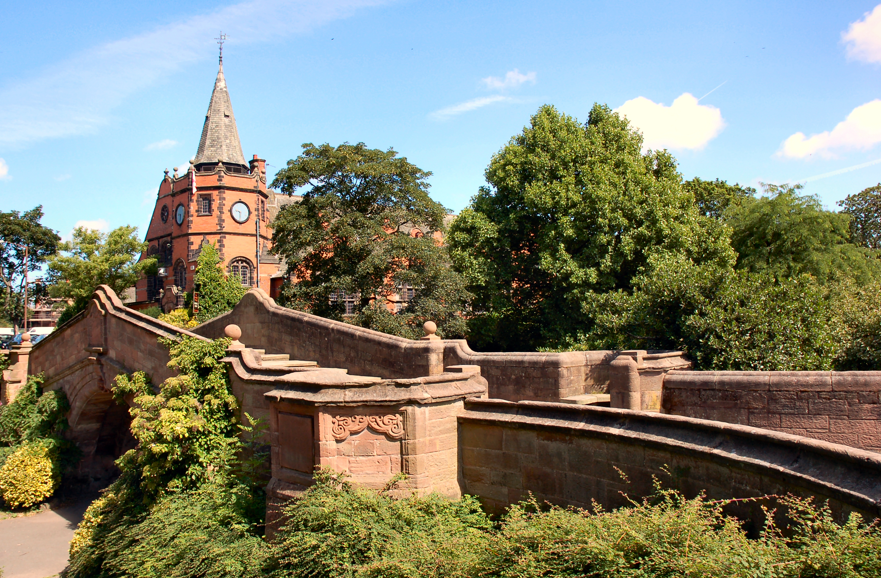 Dell Bridge, Port Sunlight